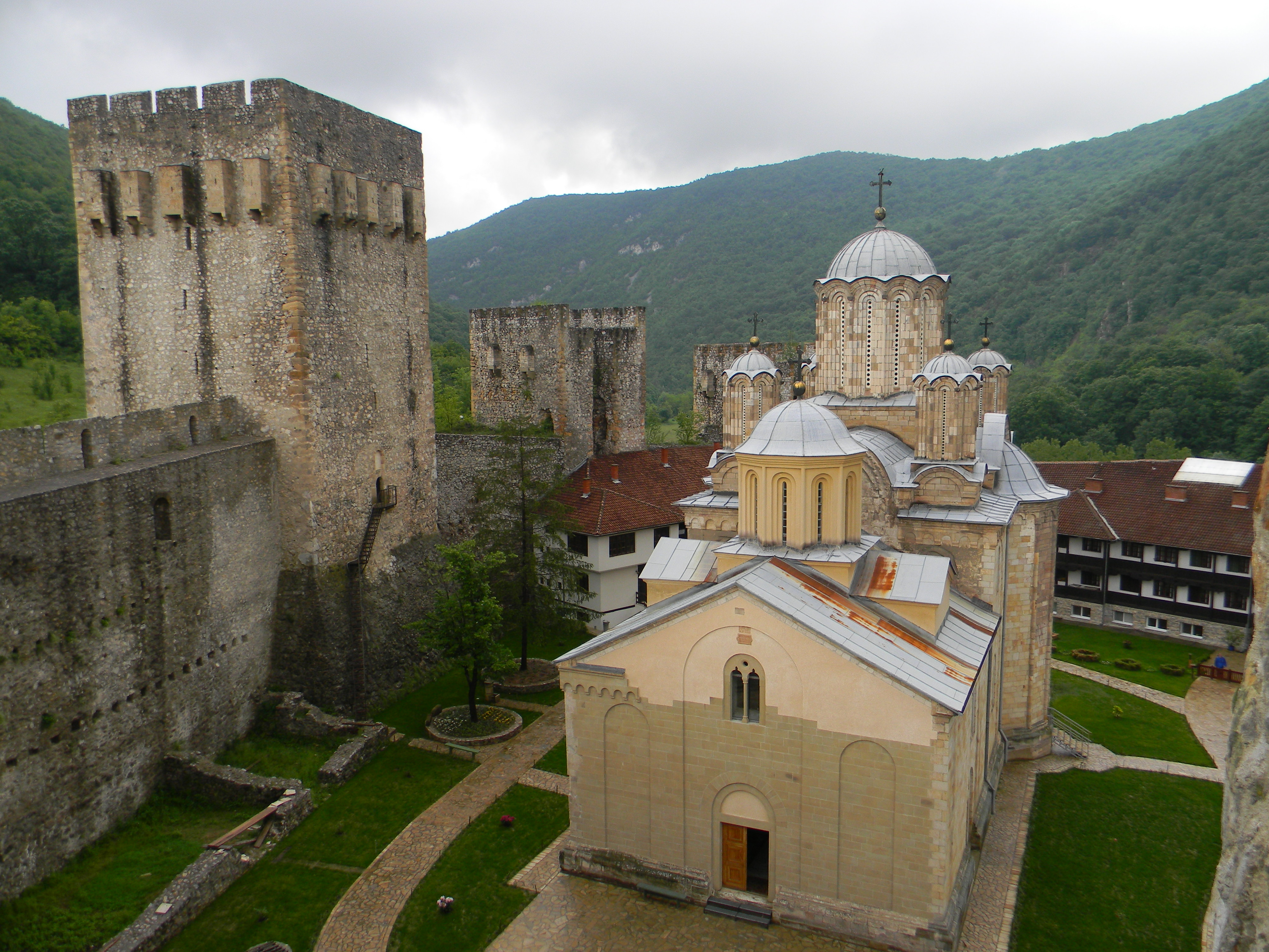 Fortress and Monastery of Manasija, near Despotovac, Serbia